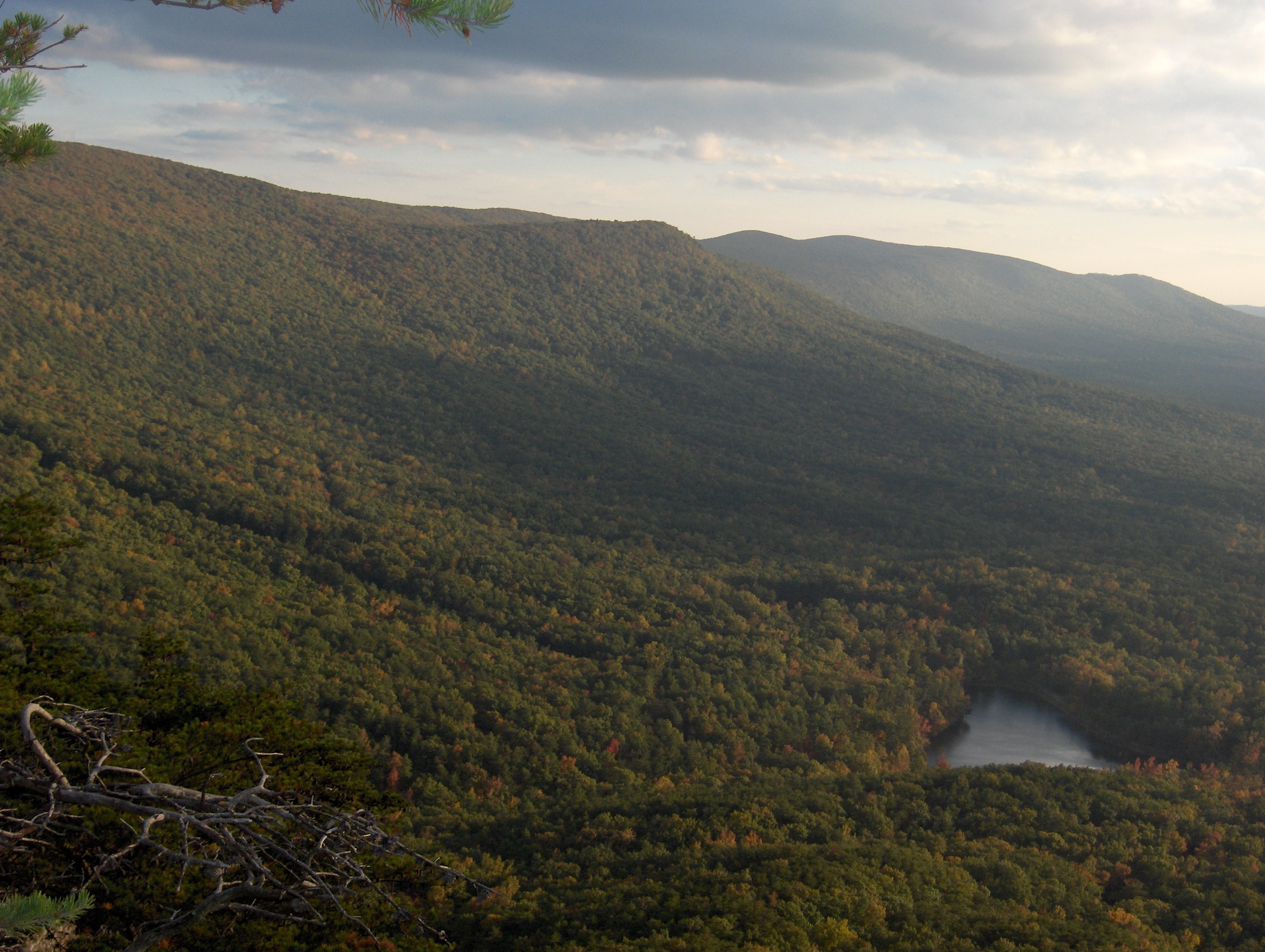 Lake at base of Cheaha Mountain, highest point in Alabama